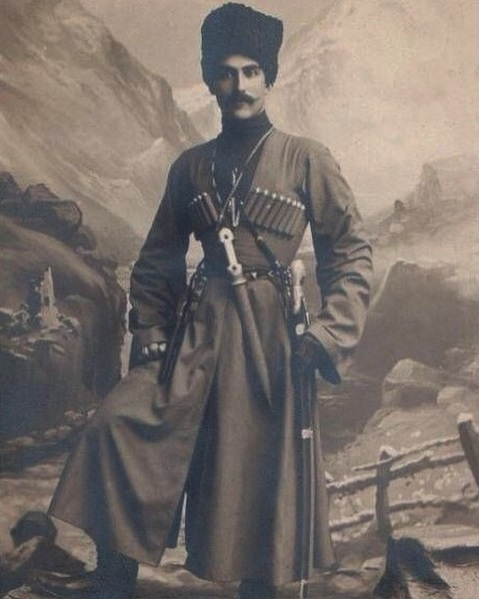 Ingush (early 20th century)